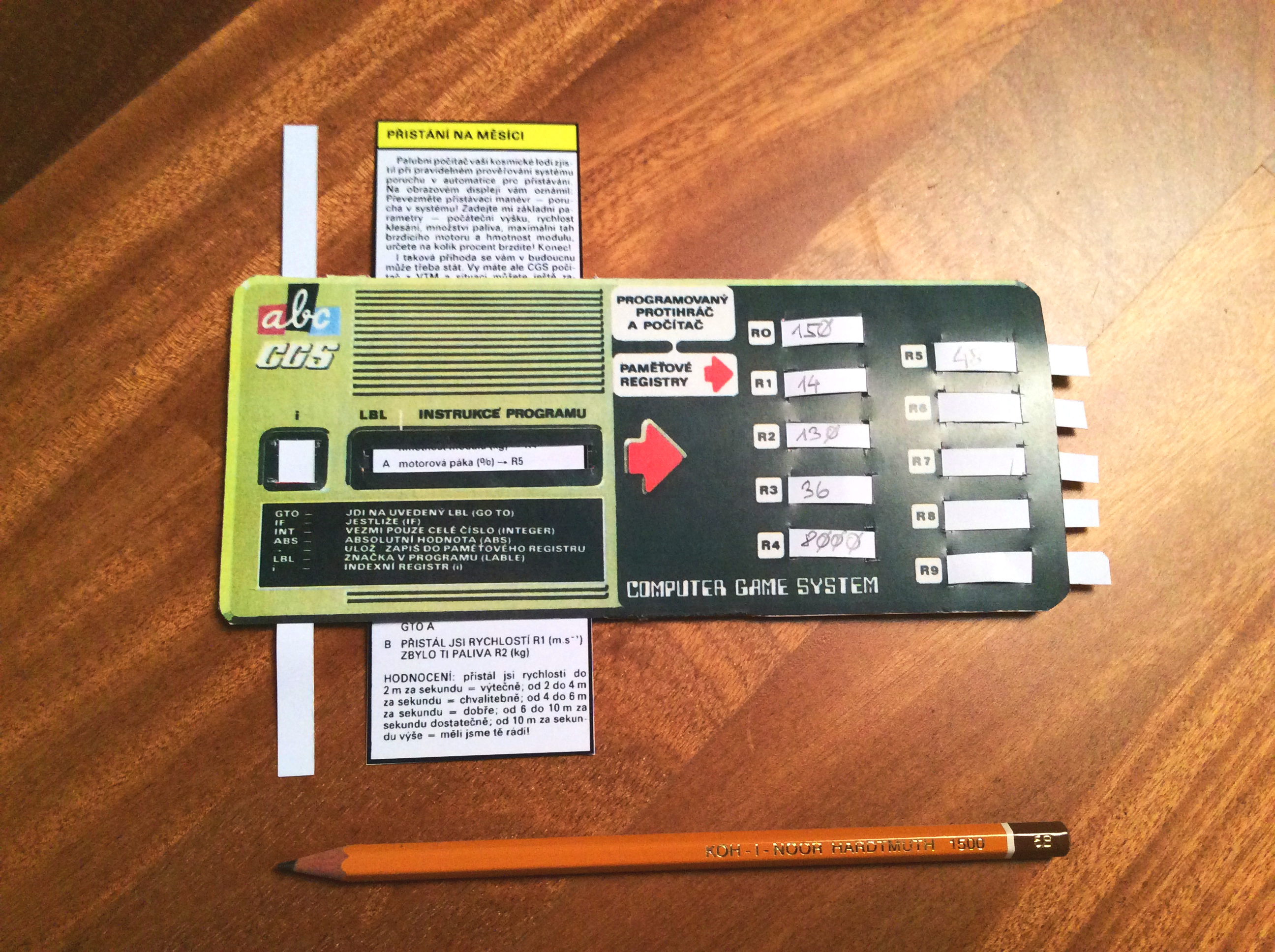 Paper Computer Simulator "CGS" (ABC magazine, 1980)